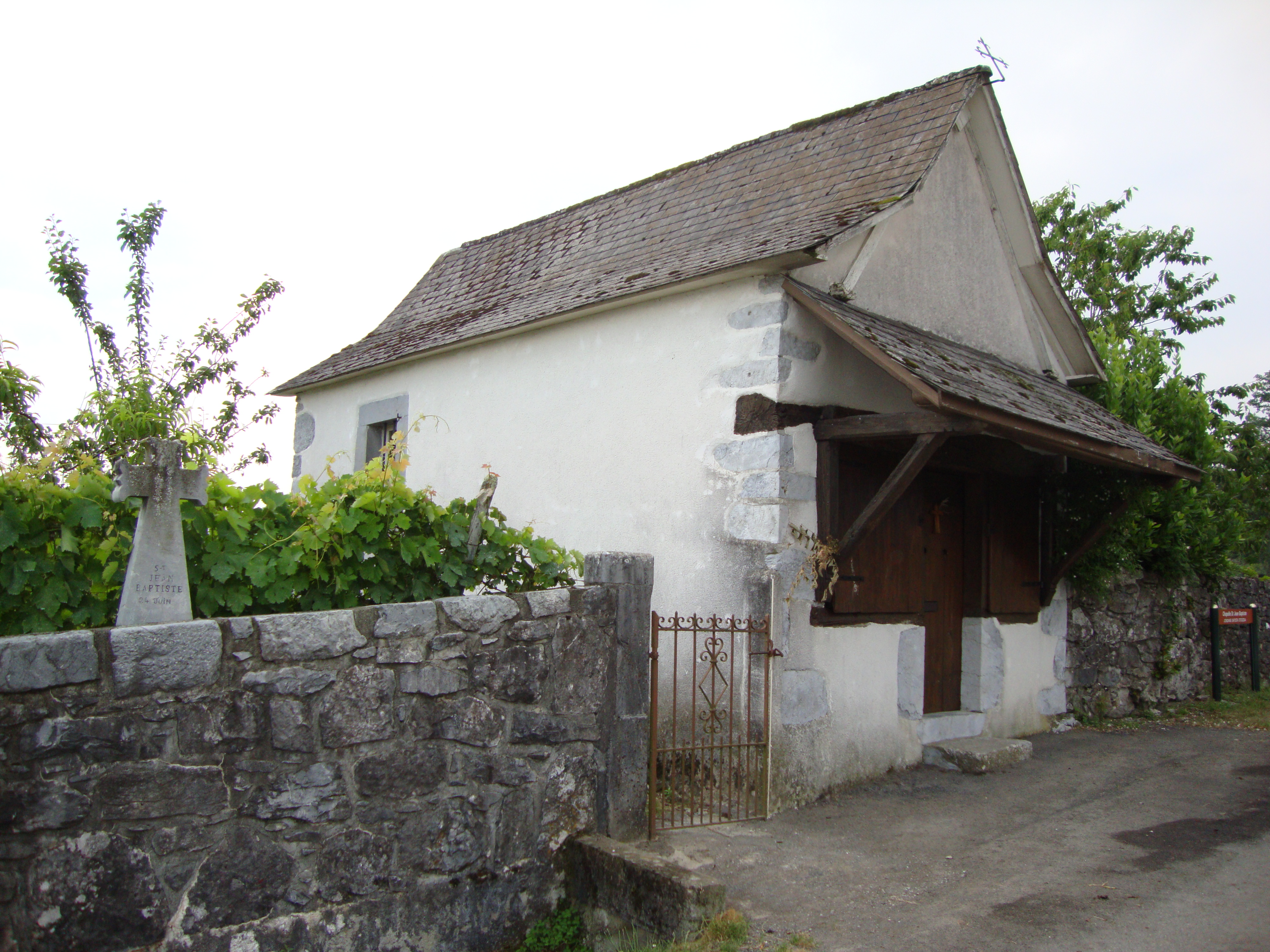 Urruty (Camou-Cihigue, Pyr-Atl, Fr) Saint-Jean-Baptiste chapel, exterior